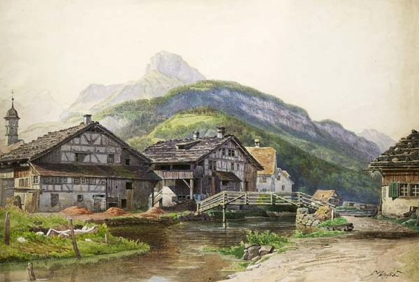 Well at Vierwaldstätter See (lake)